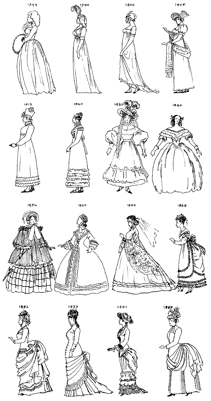 A sketch by Alfred Roller, giving an overview of women's fashions during the period 1794-1887. First row: 1794, 1796, 1800, 1805 Second row: 1813, 1820, 1830, 1840 Third row: 1850, 1860, 1864, 1868 Fourth row: 1872, 1877, 1881, 1887 Note that only the 1800, 1805, 1813, 1820, 1830, and 1868 dresses are ankle-length (or a little above), while the others are more or less floor-length (the shoes are partly visible under the 1887 dress).